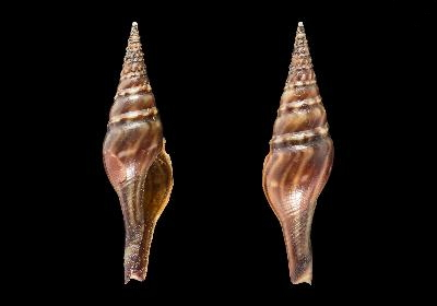 Tomellana hupferi (Strebel, 1912) ; family Clavatulidae; Cameroon